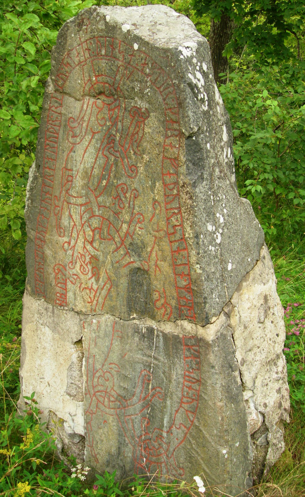 runic stone Upplands runinskrifter U1146